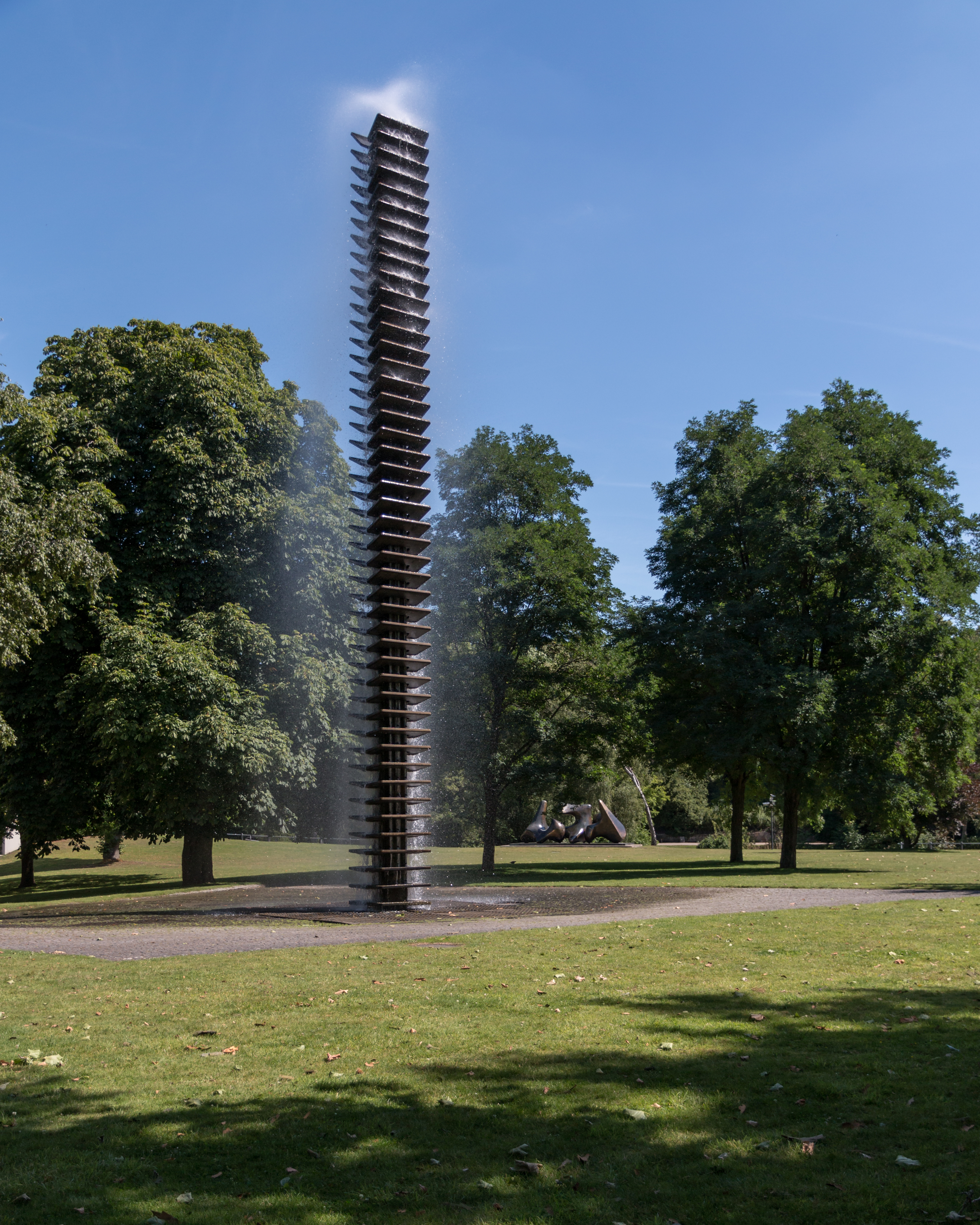 Sculpture “Wasser-Plastik” (Heinz Mack, 1977) at the LBS office building, Münster, North Rhine-Westphalia, Germany